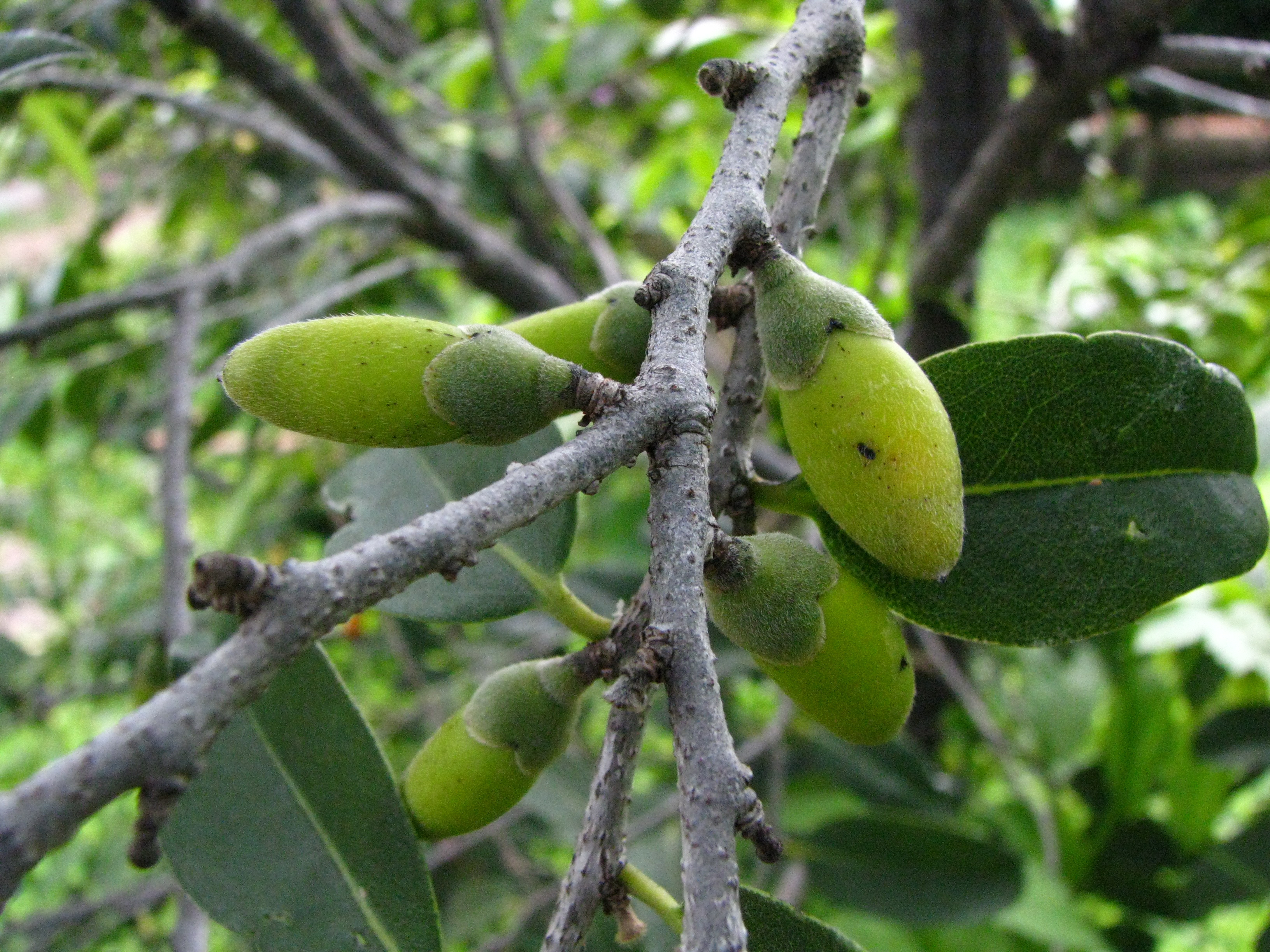 Lama or Ēlama Ebenaceae Endemic to the Hawaiian Islands Oʻahu (Cultivated) Unripe fruits. This is Hawaii's native persimmon. The small, but edible fruit called piʻoi, were eaten by early Hawaiians and sometimes enjoyed by hikers and backpackers today.